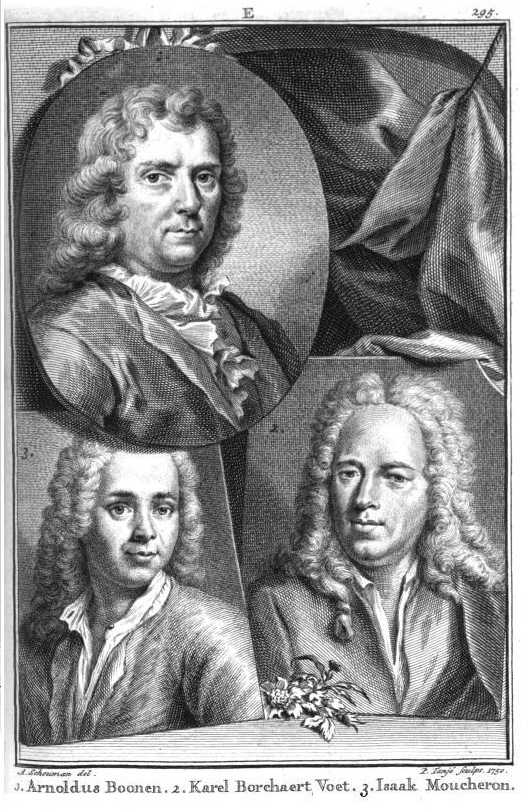 Portraits of Arnoldus Boonen, Karel Borchaert Voet and Isaak Moucheron